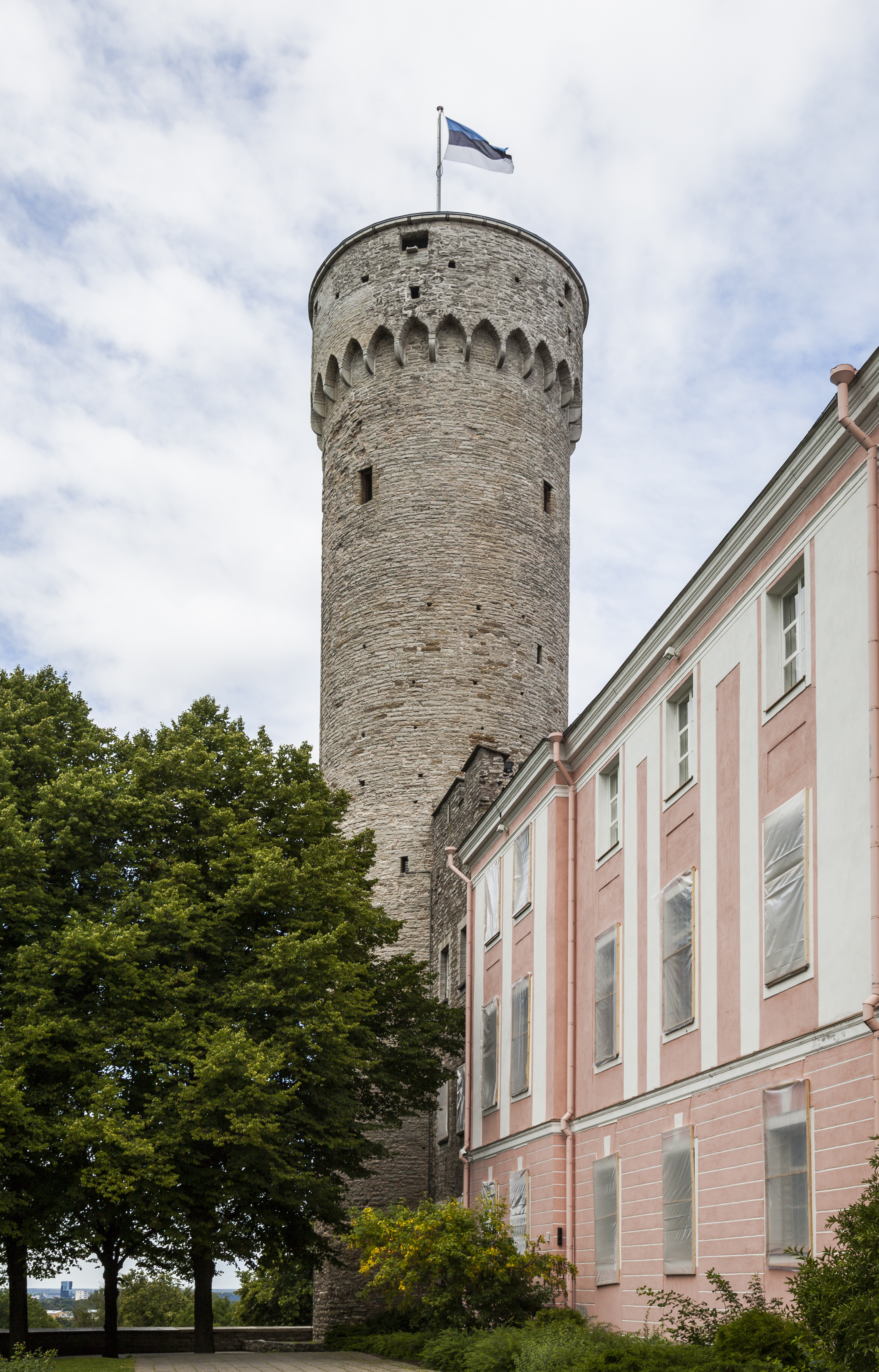 Pikk Hermann, Toompea castle, Tallinn, Estonia